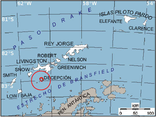 Location map of Deception Island in the South Shetland Islands